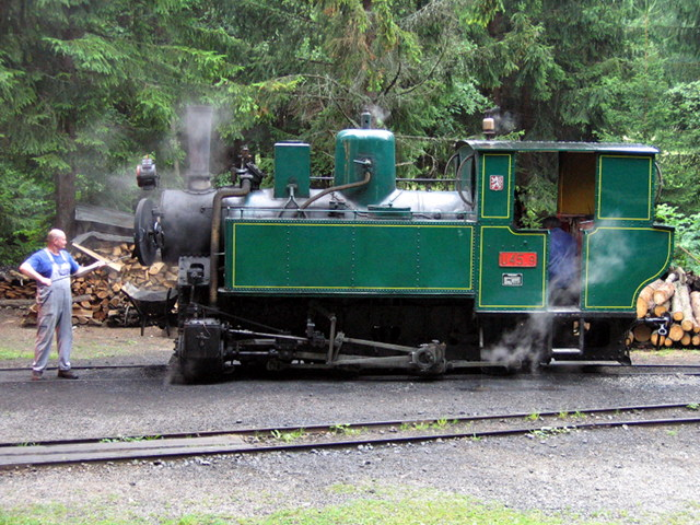 Daily maintainance of U 45.9 (MÁV Budapest 4282/1916)